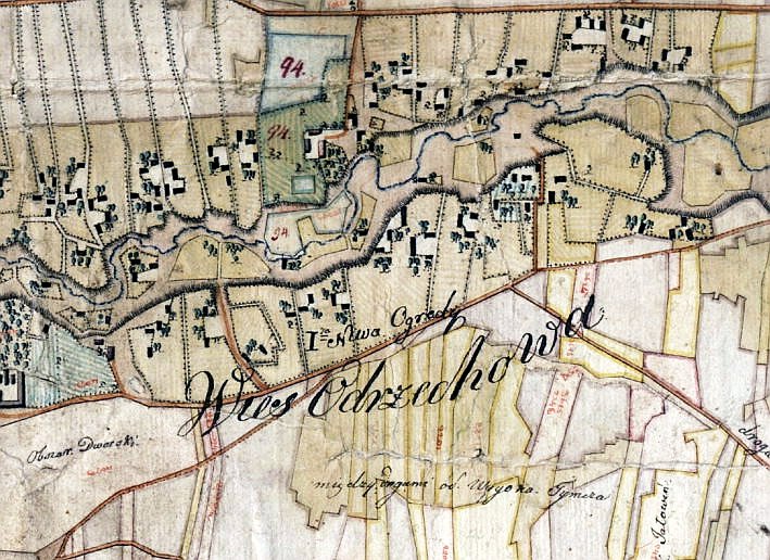 Cadastral maps of the Galicia (Central Europe)